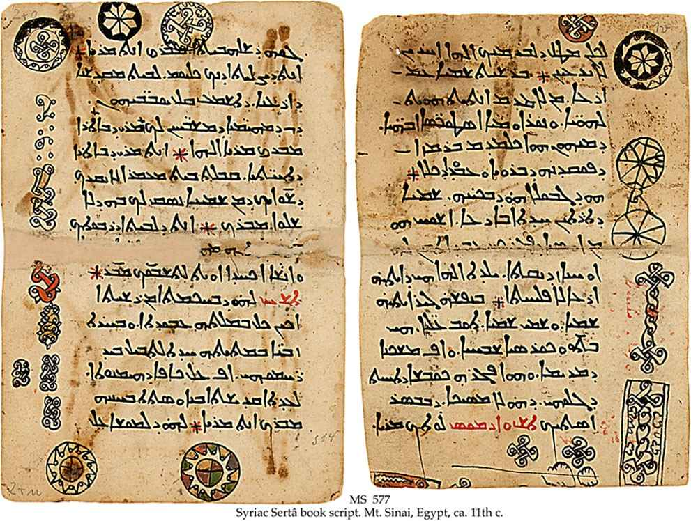 The Schøyen Collection MS 577, Oslo and London. Syriac Sertâ book script. Mt. Sinai, Egypt, ca. 11th c. Hermologion: Heirmos 705-709, Melchite Use. MS in Syriac on paper, 2 ff., 20x14 cm, 16 lines in Syriac Sertâ book script, knotwork decorated headpiece, marginal drawings of roundels, interlace patterns, etc. in black and red. From the Monastery of St Catherine, Mt Sinai. Elizabeth G. Sørenssen & Jingru Høivik: photography and formatting.